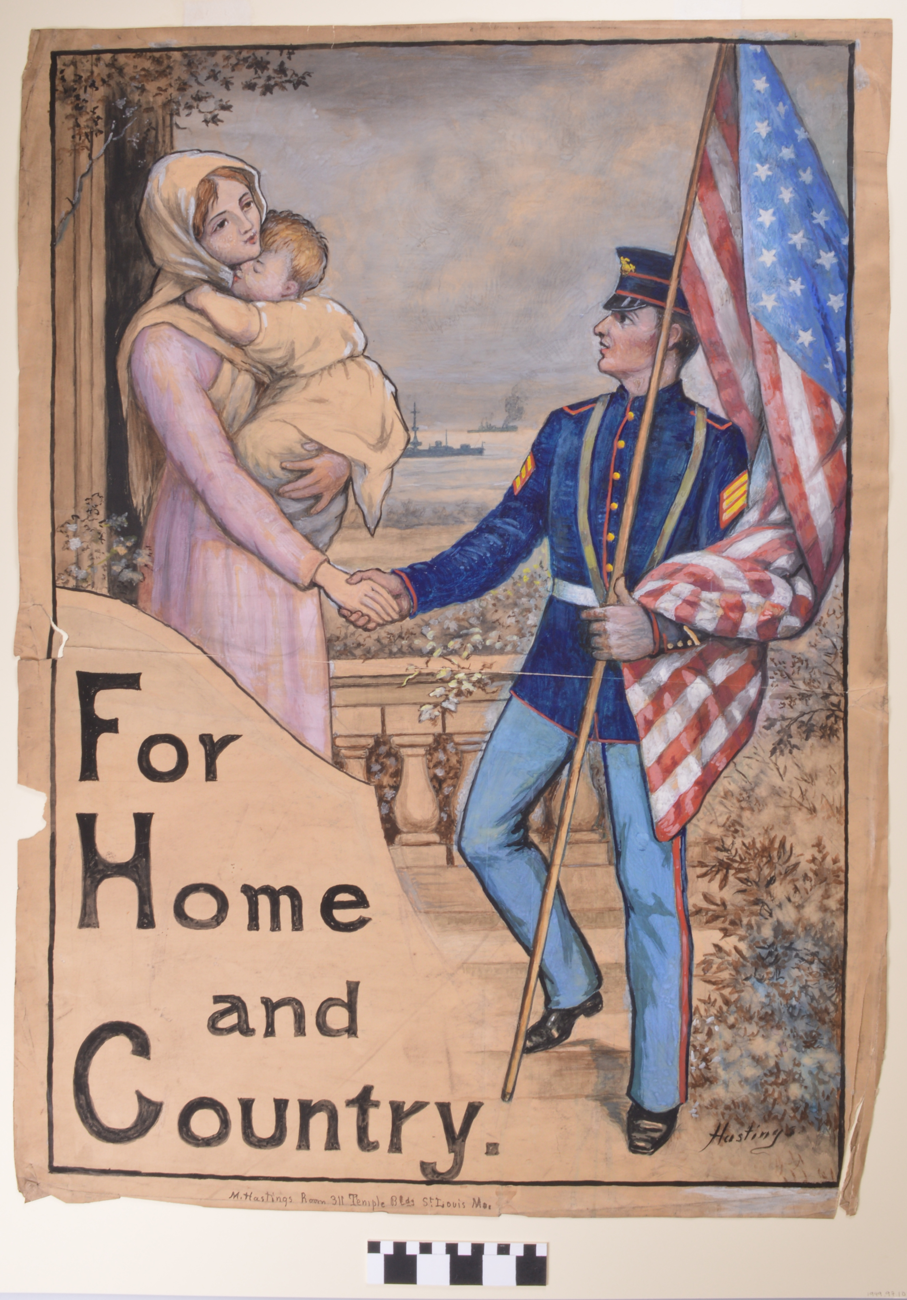 Handpainted U.S. Marines recruiting poster, "For Home and Country" by St. Louis Artish Matthew Hastings. The poster has a U.S. Marine in his dress blue uniform holding a U.S. flag bidding farewell to a women holding a baby. Two battleships are in the background.Title: World War I Marine Recruiting Poster, "For Home and Country" by Matthew Hastings